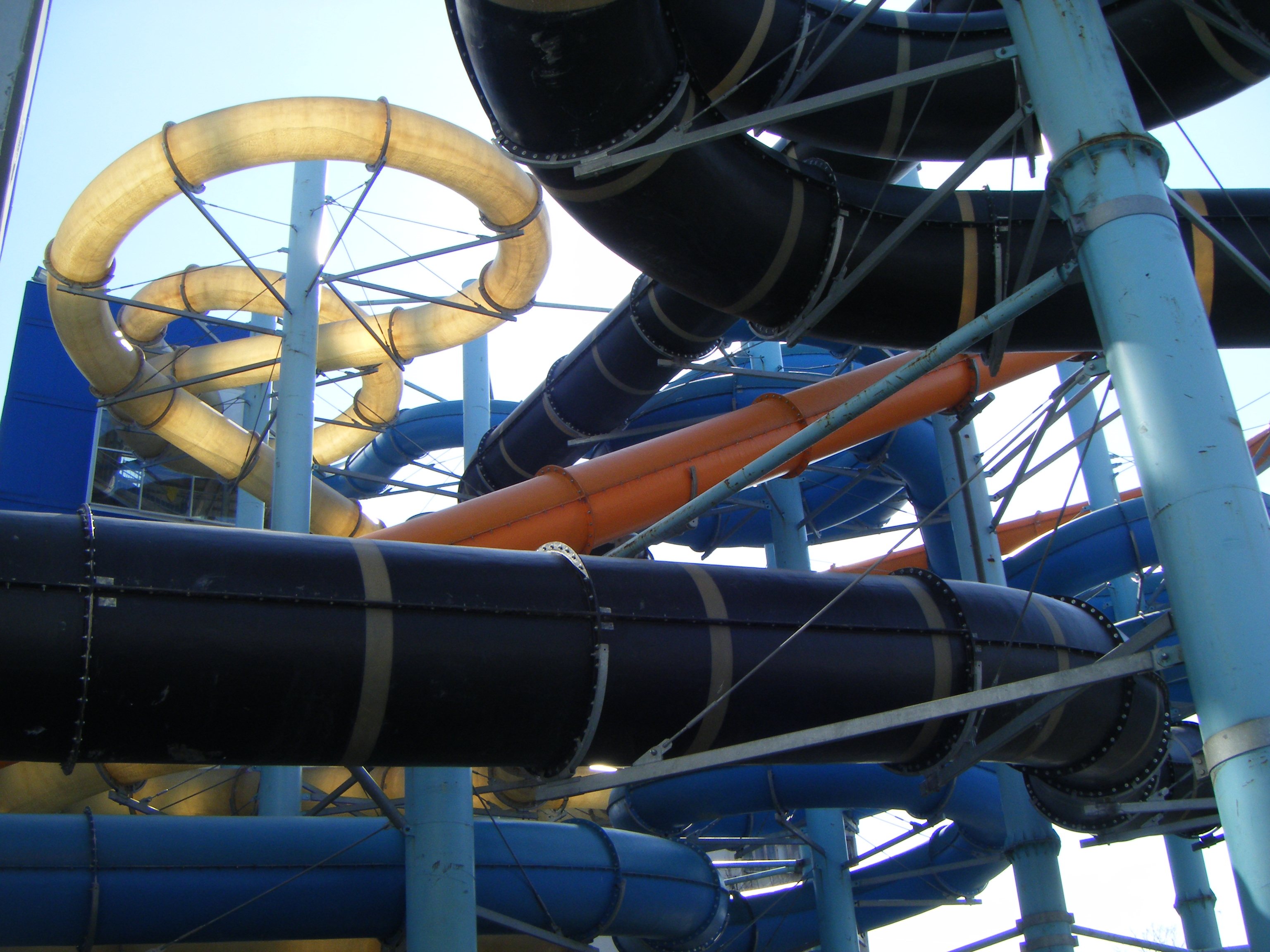 Waterpark in Lviv, Ukraine